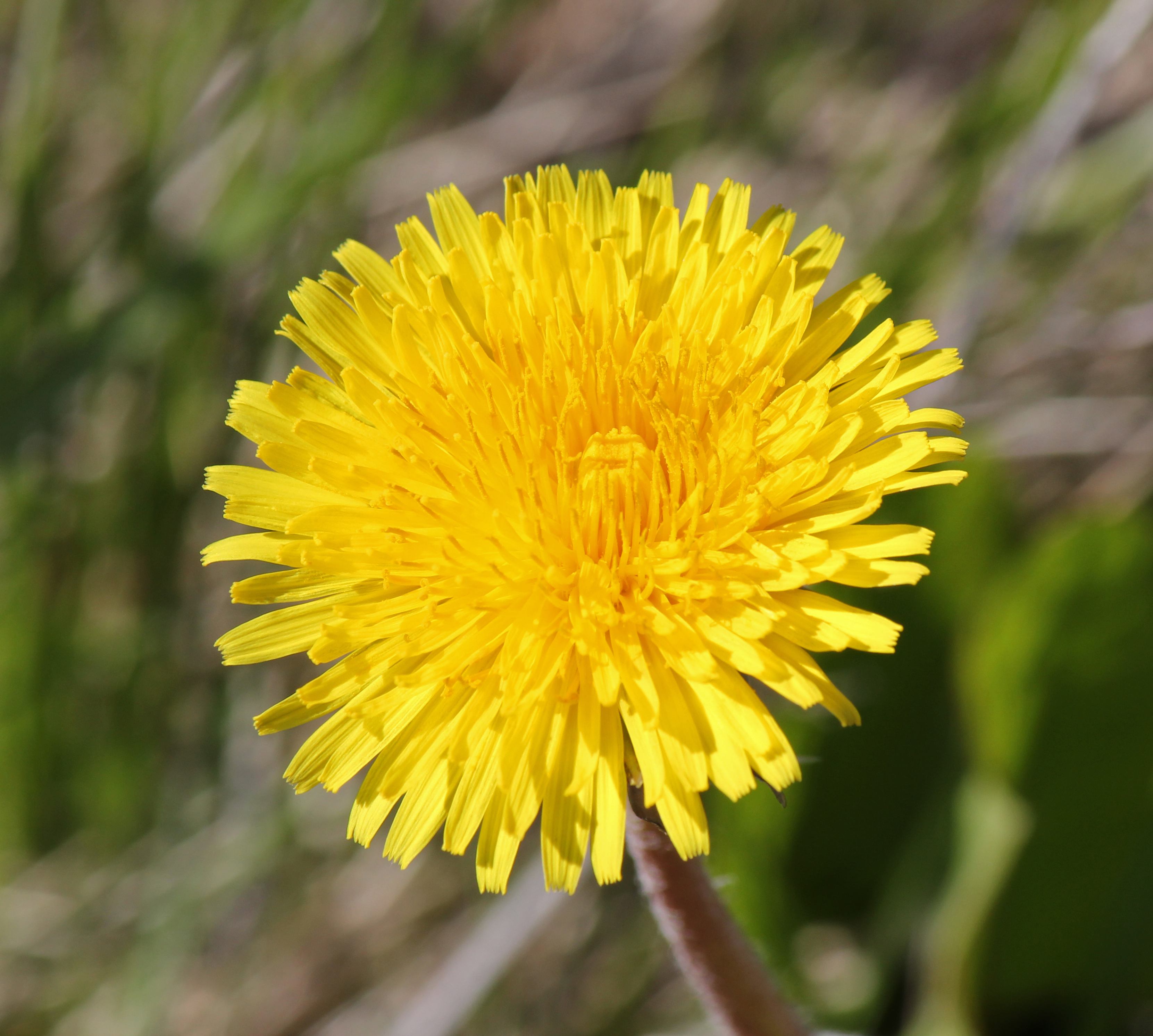 A dandelion (Taraxacum sect. Ruderalia) in Sweden.